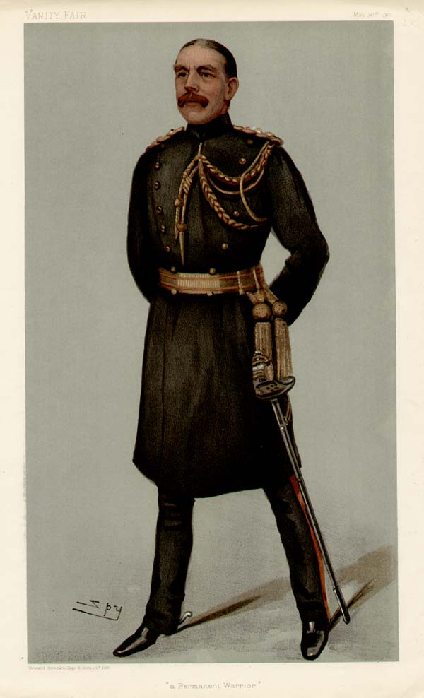 Men of the Day No.810: Caricature of Col Sir EWD Ward. Caption reads: "a Permanent Warrior"